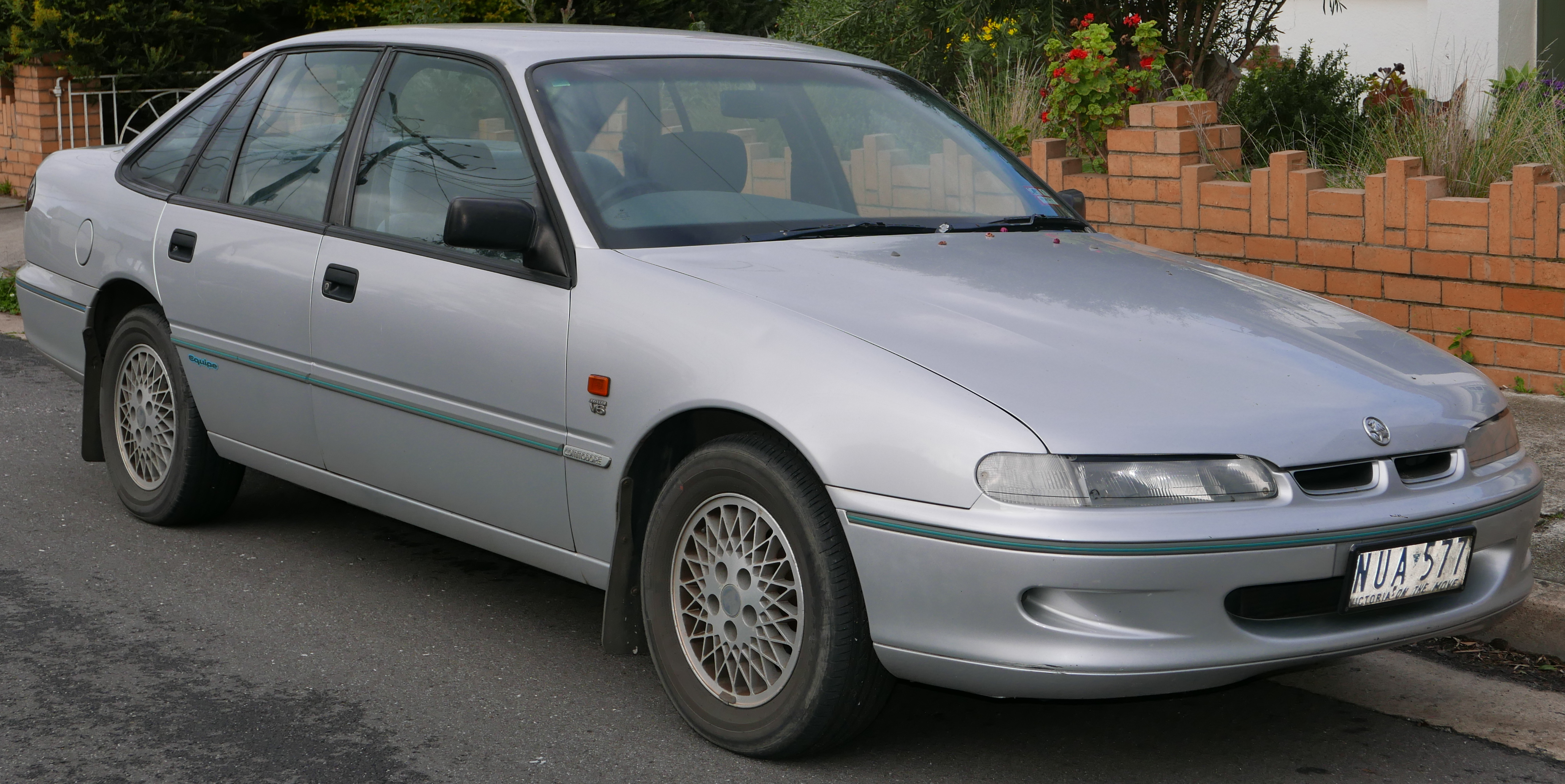 1996 Holden Commodore (VS) Equipe sedan. Photographed in Thornbury, Victoria, Australia. Vehicle registration enquiry results Jurisdiction Victoria Registration NUA577 Chassis code 6H8VSK19HTL926794 Engine code VH578426 Compliance date 1996-04 Year of manufacture 1996